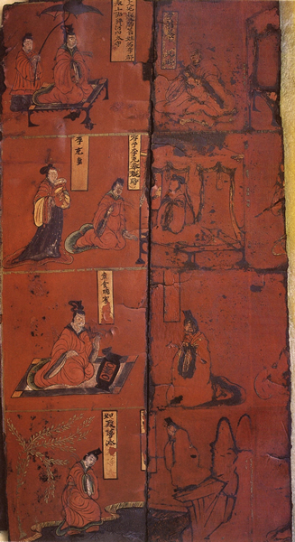 Filial sons and virtuous women in Cathayan/Chinese history, lacquer painting over wood, dated to the Northern Wei Dynasty (386–534 AD).